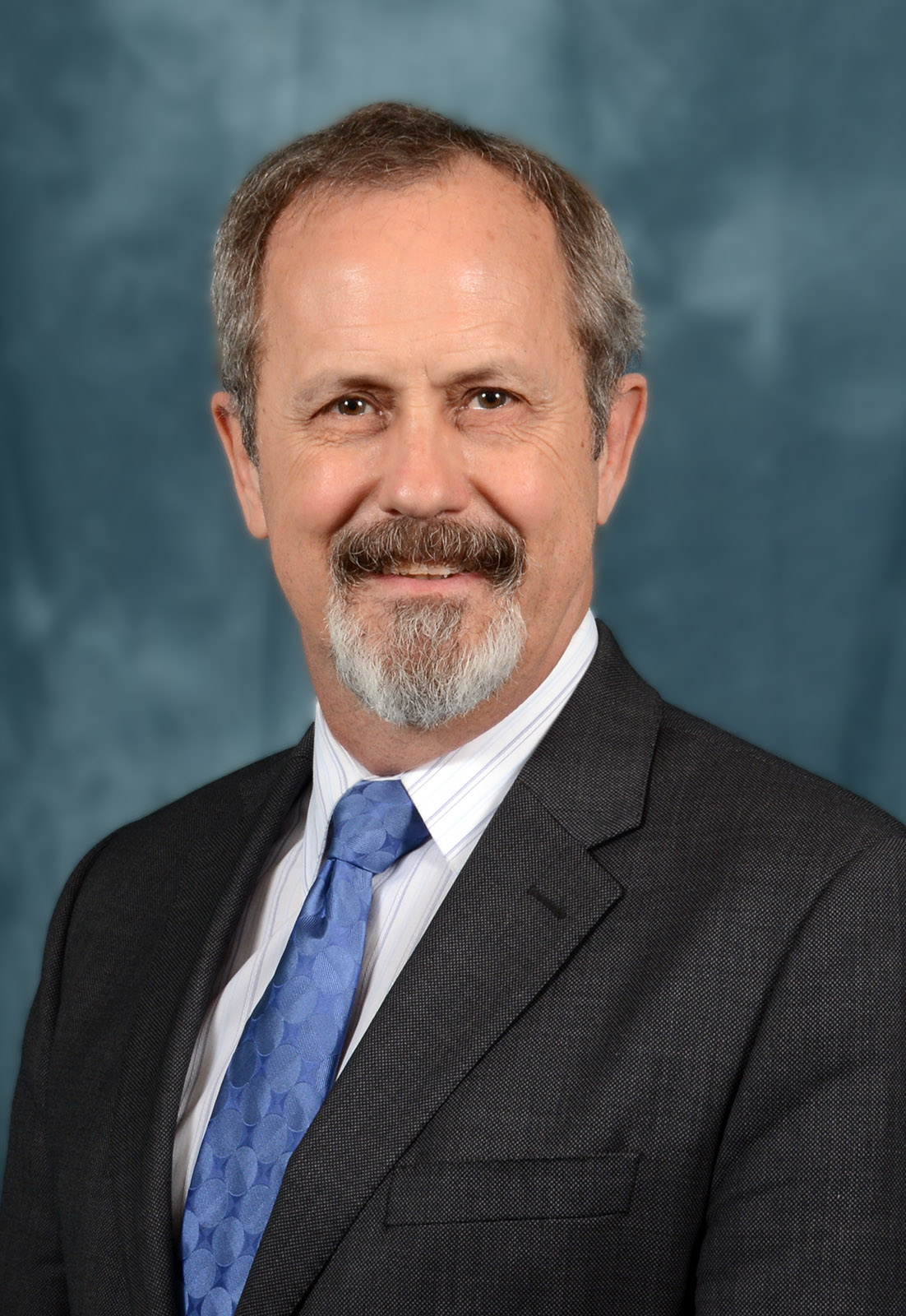 Headshot of Dr. Thomas Kirsch, grey suit, white shirt with tie.